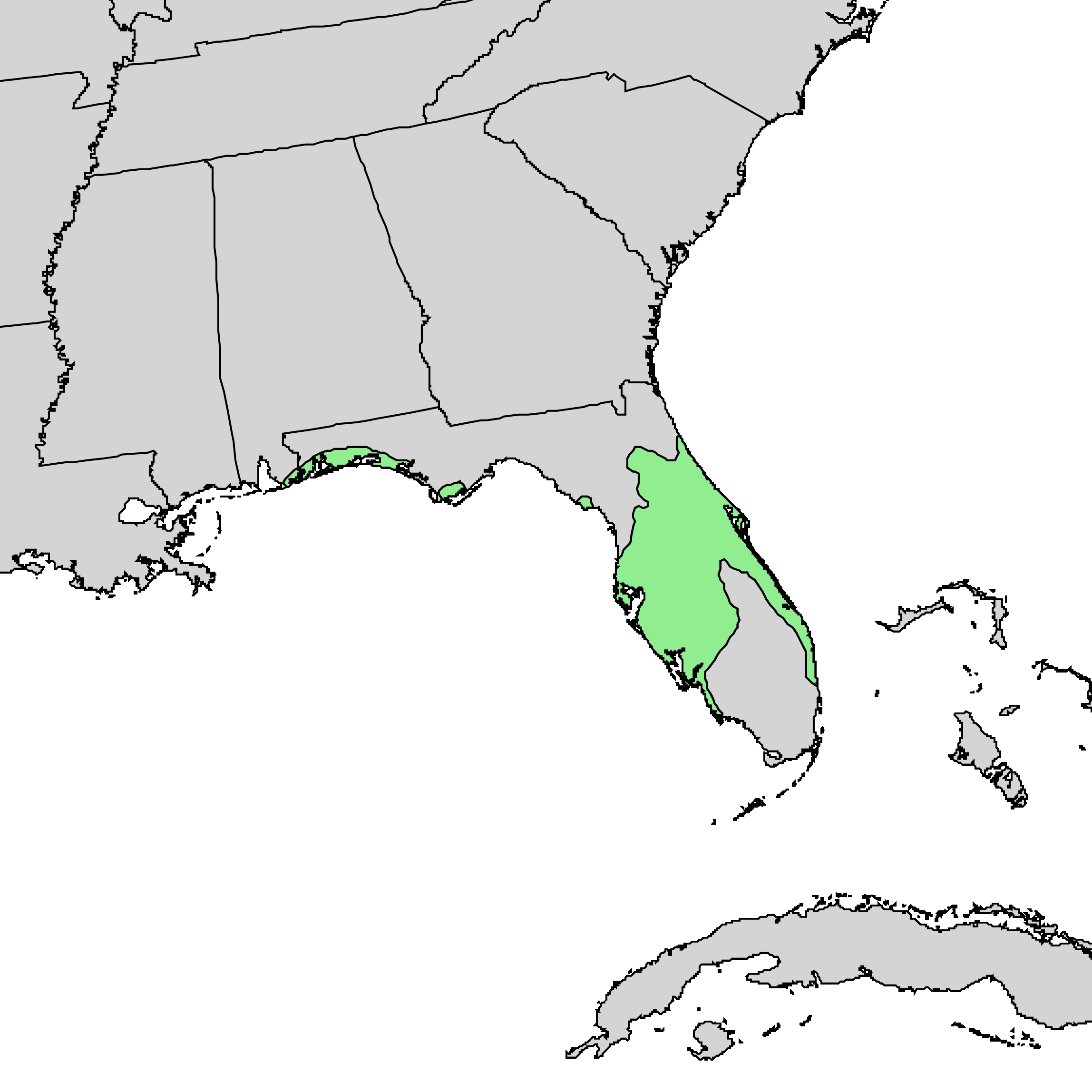 Natural distribution map for Pinus clausa